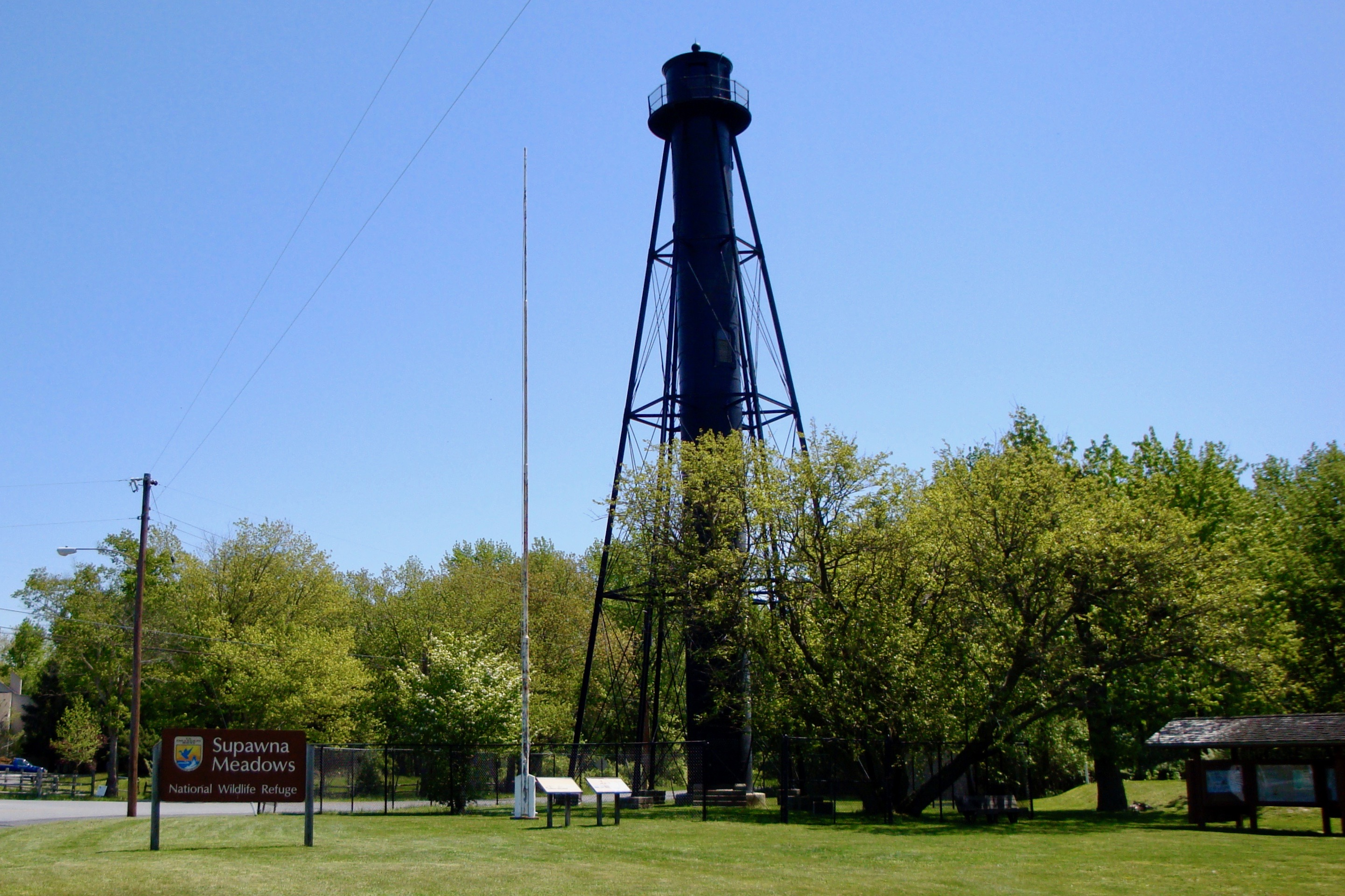 The Finns Point Rear Range Light at the Supawna Meadows National Wildlife Refuge in Pennsville Township, New Jersey. At the Admin Building and Visitor Contact Station for the refuge.